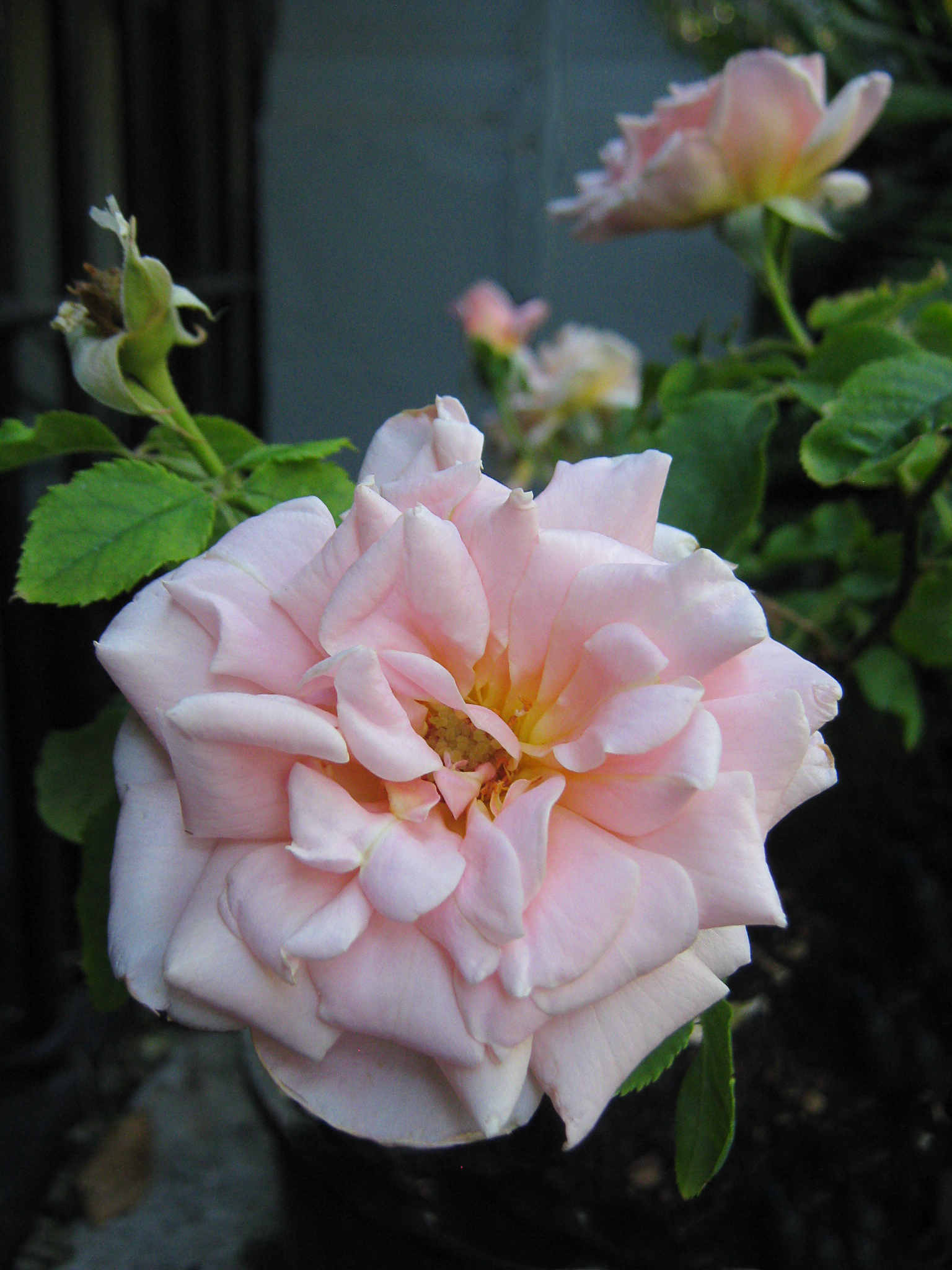 Rose 'Mab Grimwade', low Hybrid Tea by Alister Clark 1937; plant from Mistydowns, Springmount, Victoria photographed in St Kilda, Victoria